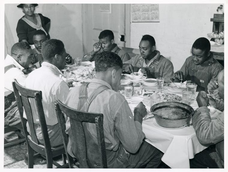 Digital ID: 1260118. The Negro tenants and neighbors eating dinner after the white men have finished, on day of corn-shucking at Mrs. Fred Wilkins' home. Tallyho, Stem, Granville County, No. Car., Nov 1939.. Wolcott, Marion Post -- Photographer. November 1939 Notes: Original negative #: 52638-D Source: Farm Security Administration Collection. / North Carolina. / Marion Post Wolcott. (more info) Repository: The New York Public Library. Schomburg Center for Research in Black Culture. Photographs and Prints Division. See more information about this image and others at NYPL Digital Gallery. Persistent URL: Rights Info: No known copyright restrictions; may be subject to third party rights (for more information, click here)